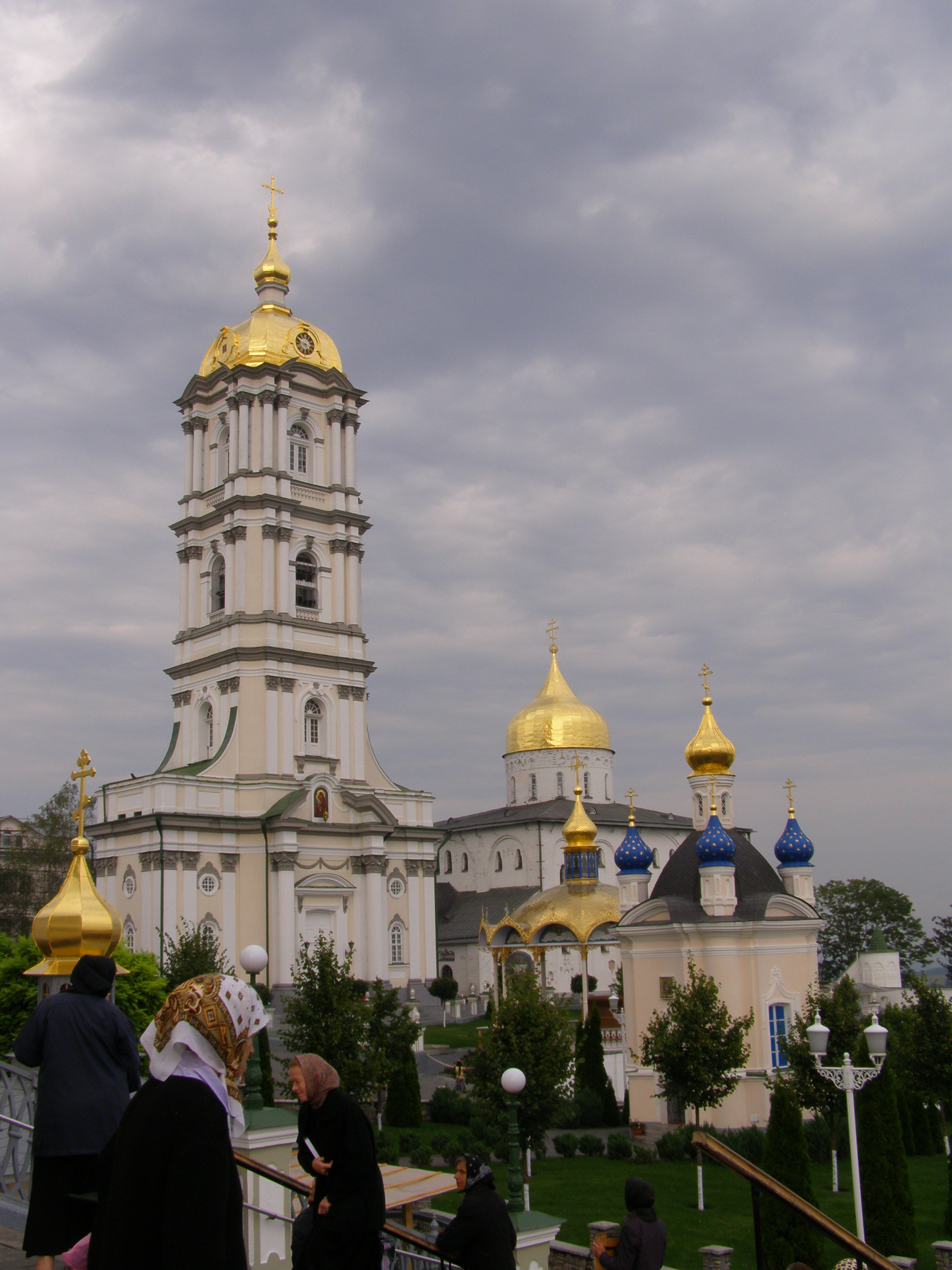 Pochayiv Lavra